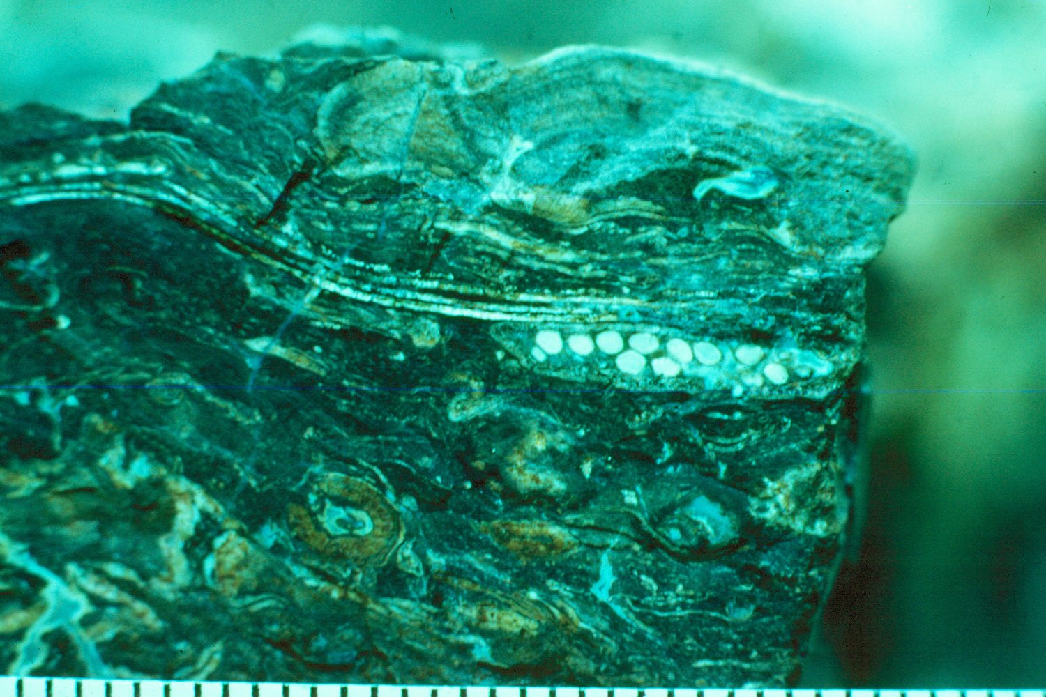 Hand specimen of the glossopterid fructification Dictyopteridium sporiferum from permineralized peat of the Late Permian Blackwater Coal Measures near Homevale Station, Queensland